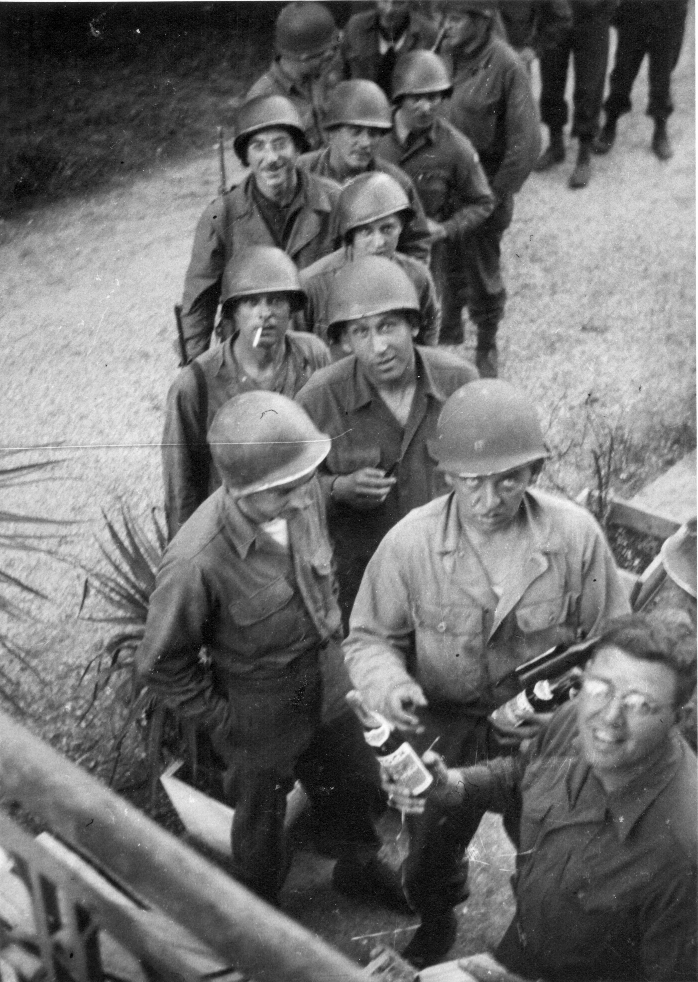 VE Day Passing out Champagne to 1139th troops